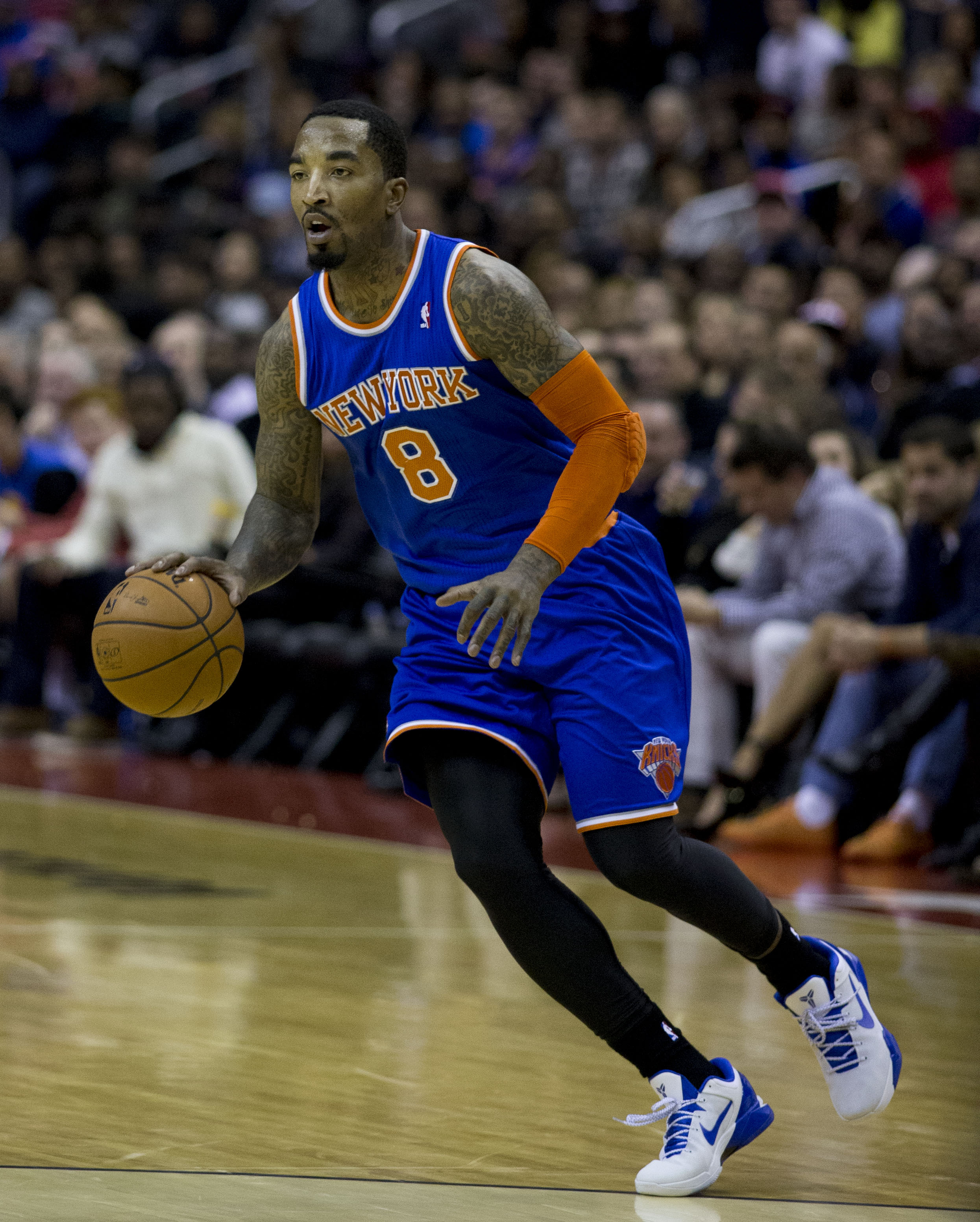 Knicks at Wizards 11/23/13